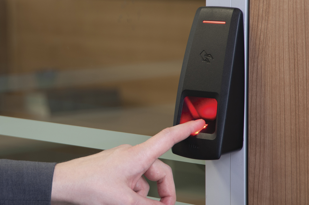 PERCo CL15 biometric controller for access controll system